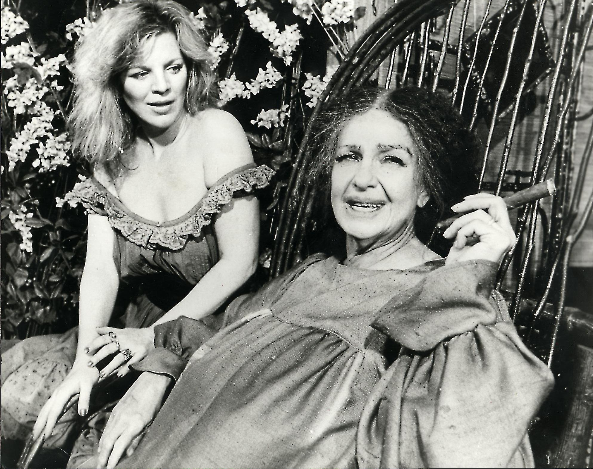 Geraldine Page and Sabra Jones at Mirror Theater in a production of Rain in 1984